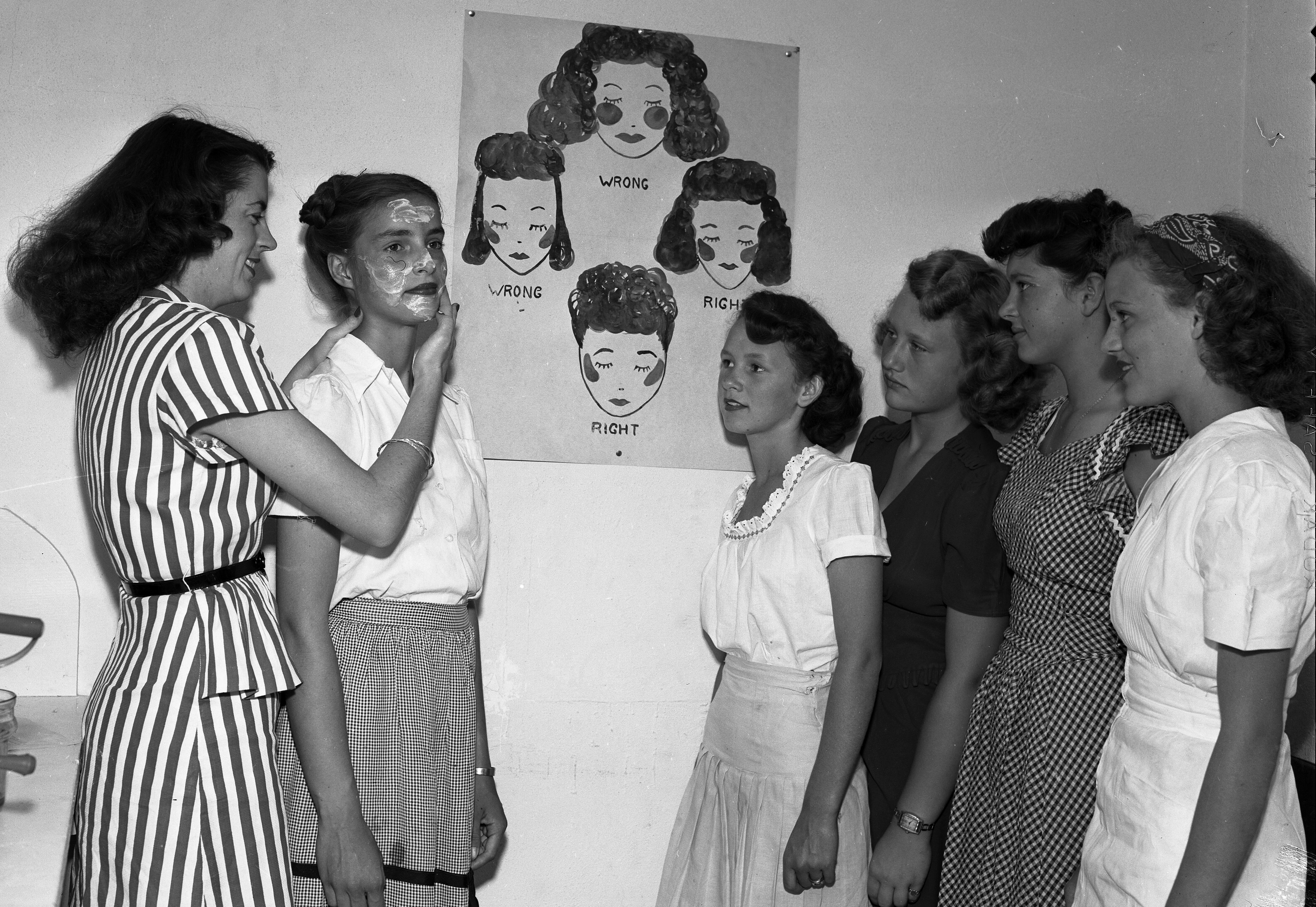 Sunset Cosmetology School students learning how to apply face cream, Arvin, Calif., 1946